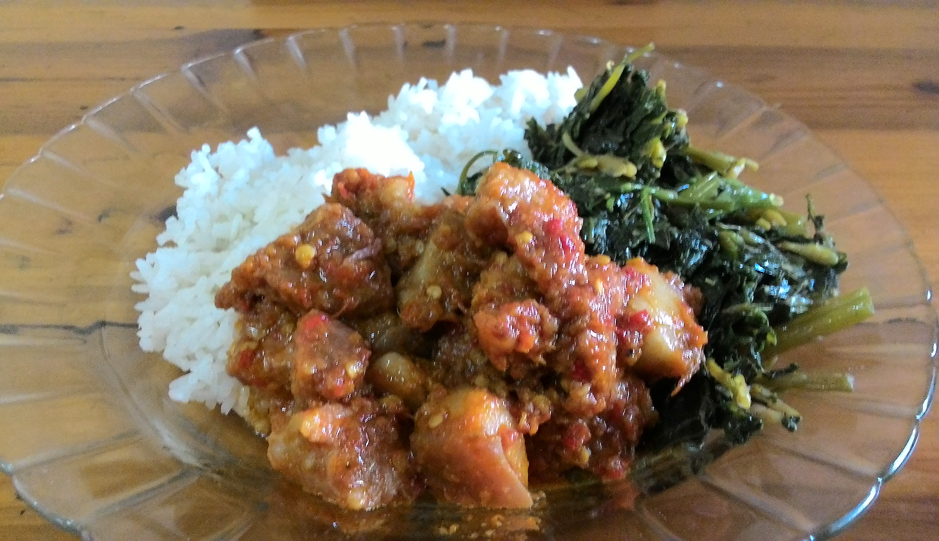 Babi rica-rica, pork in spicy rica-rica chili sauce, with sayur bunga pepaya, papaya flower vegetables. Manado cuisine, North Sulawesi, Indonesia.